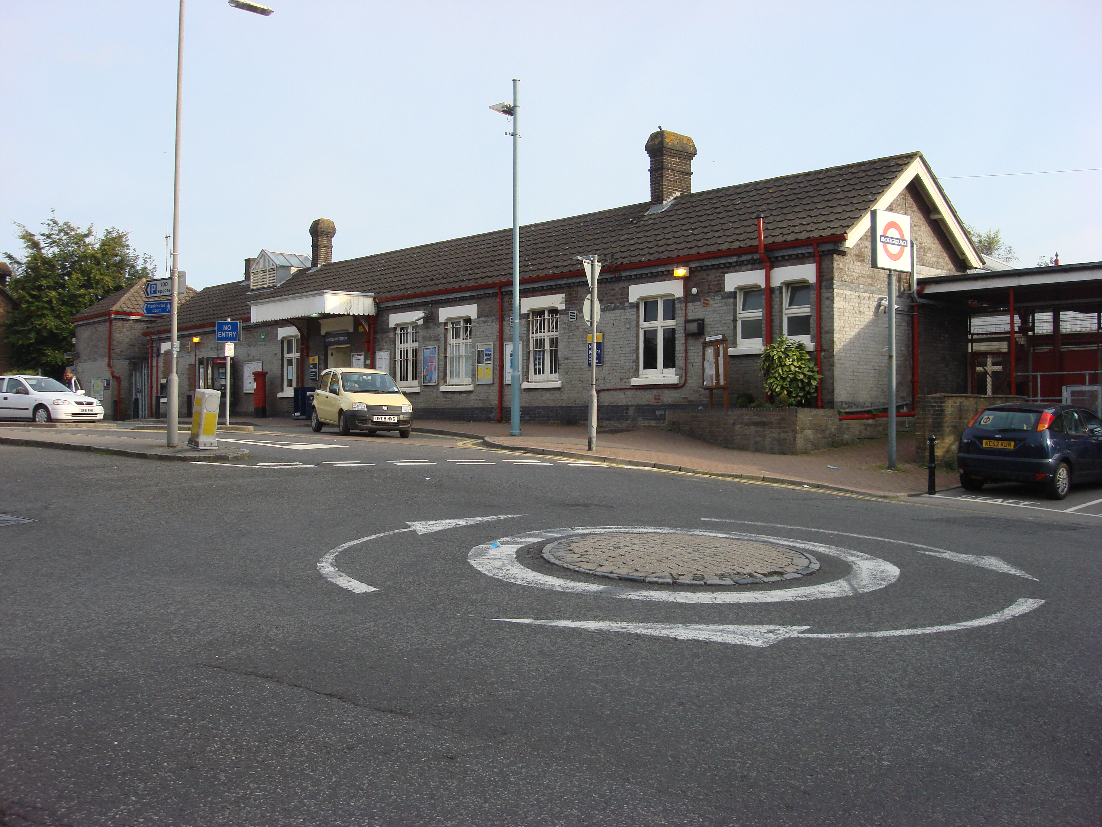 Amersham tube station